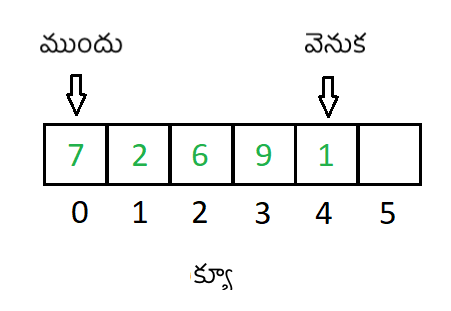 Queue in Telugu